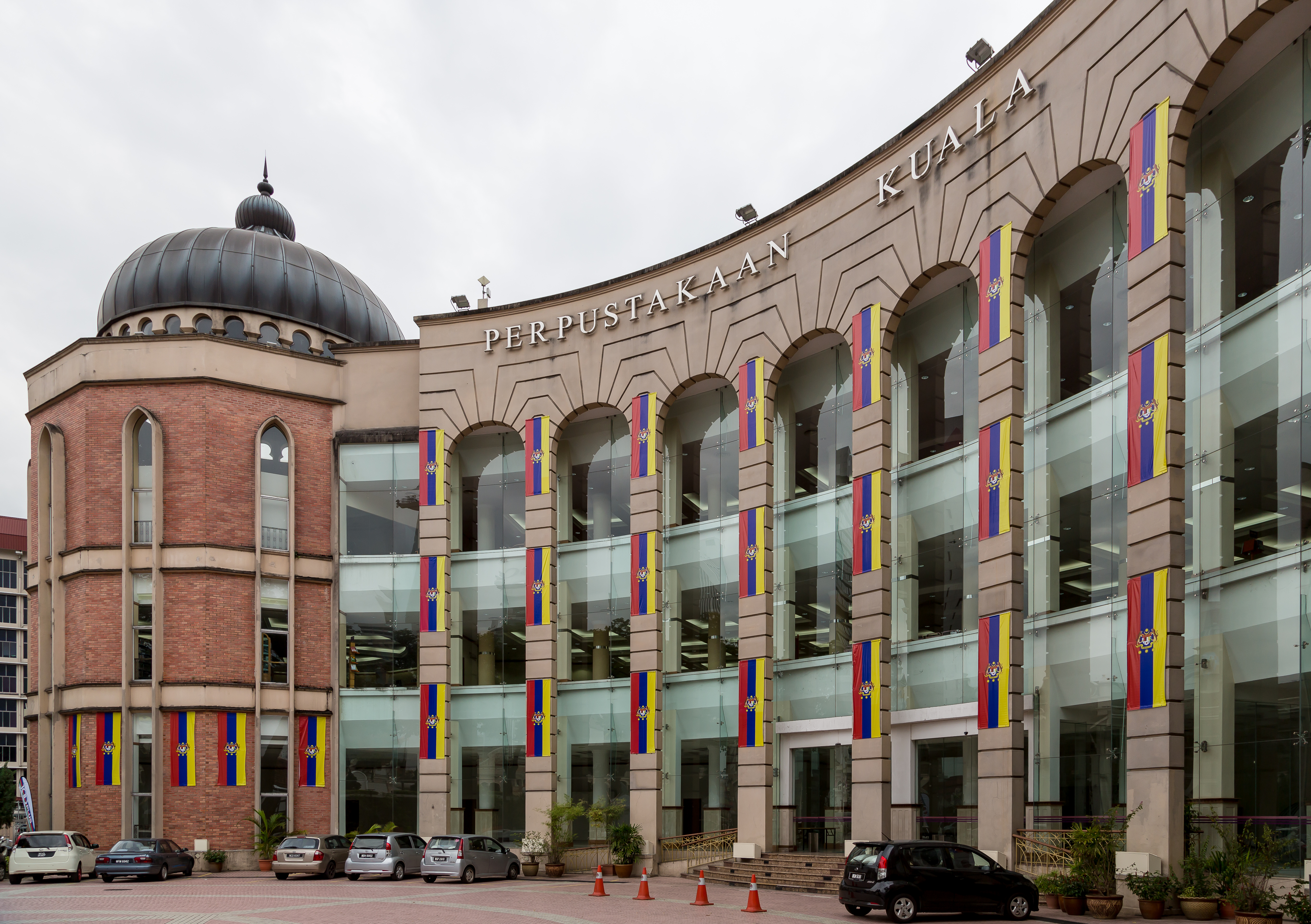 Kuala Lumpur, Malaysia: Perpustakaan Kuala Lumpur, the public library of Kuala Lumpur